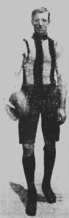 Original Caption: "FRED MOORE has a record of 50 Consecutive Games with Brunswick."